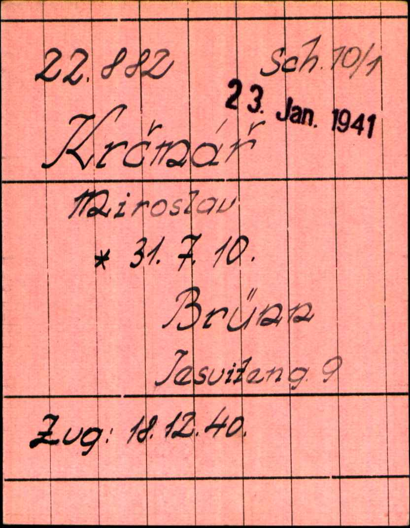 Registration card of Miroslav Krčmář as a prisoner at Dachau Nazi Concentration Camp.